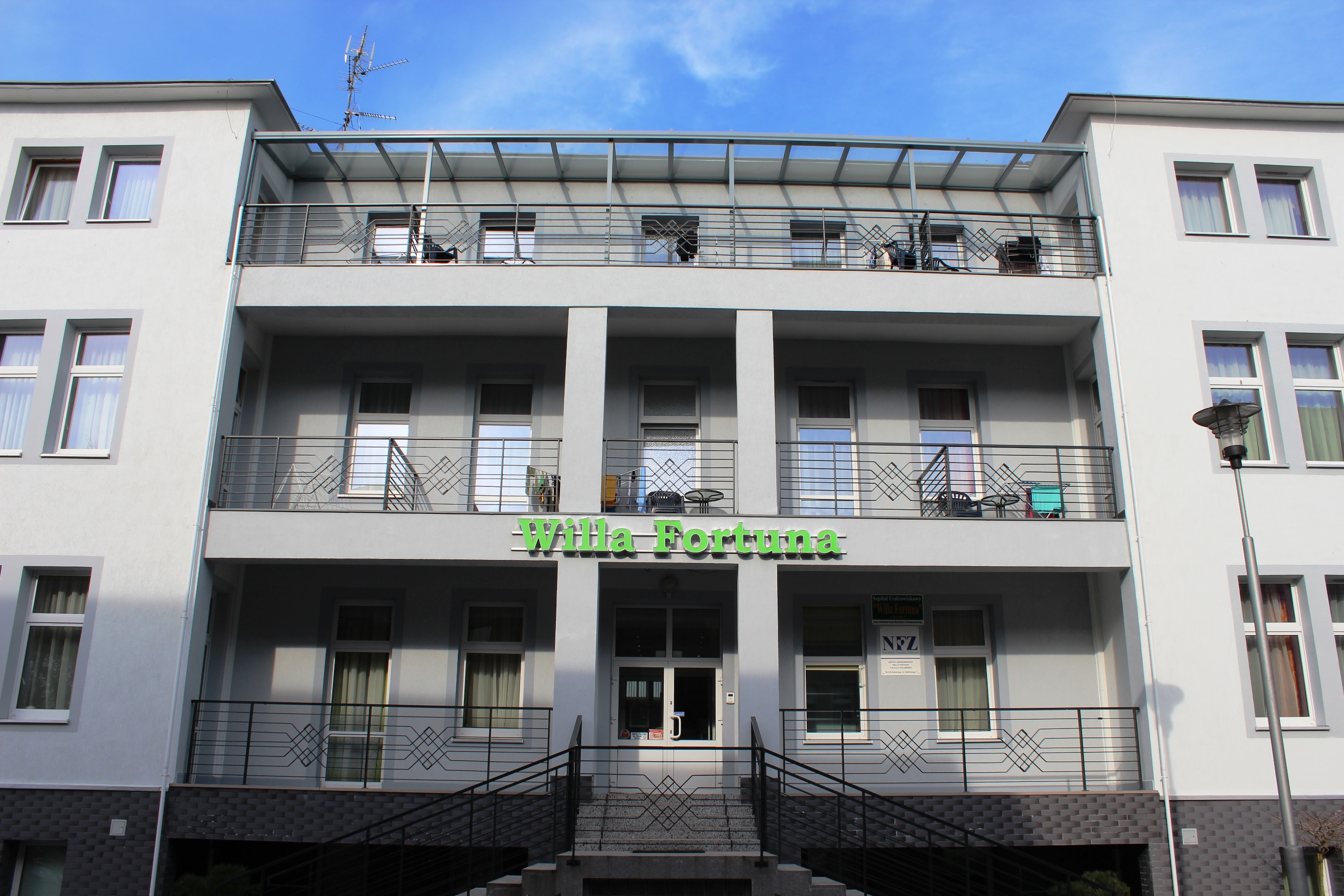 Willa Fortuna Sanatorium in Kołobrzeg